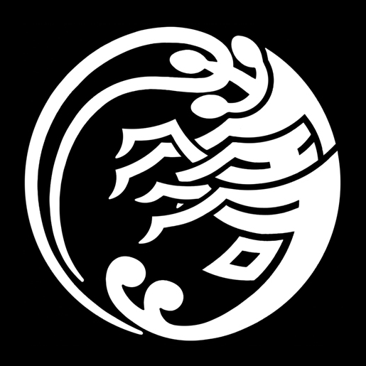 Japanese family crest for kabuki actors "Kotobuki Ebi", depicting a Japanese spiny lobster using a kanji "壽" (kotobuki, the old glyph of "寿", happiness)